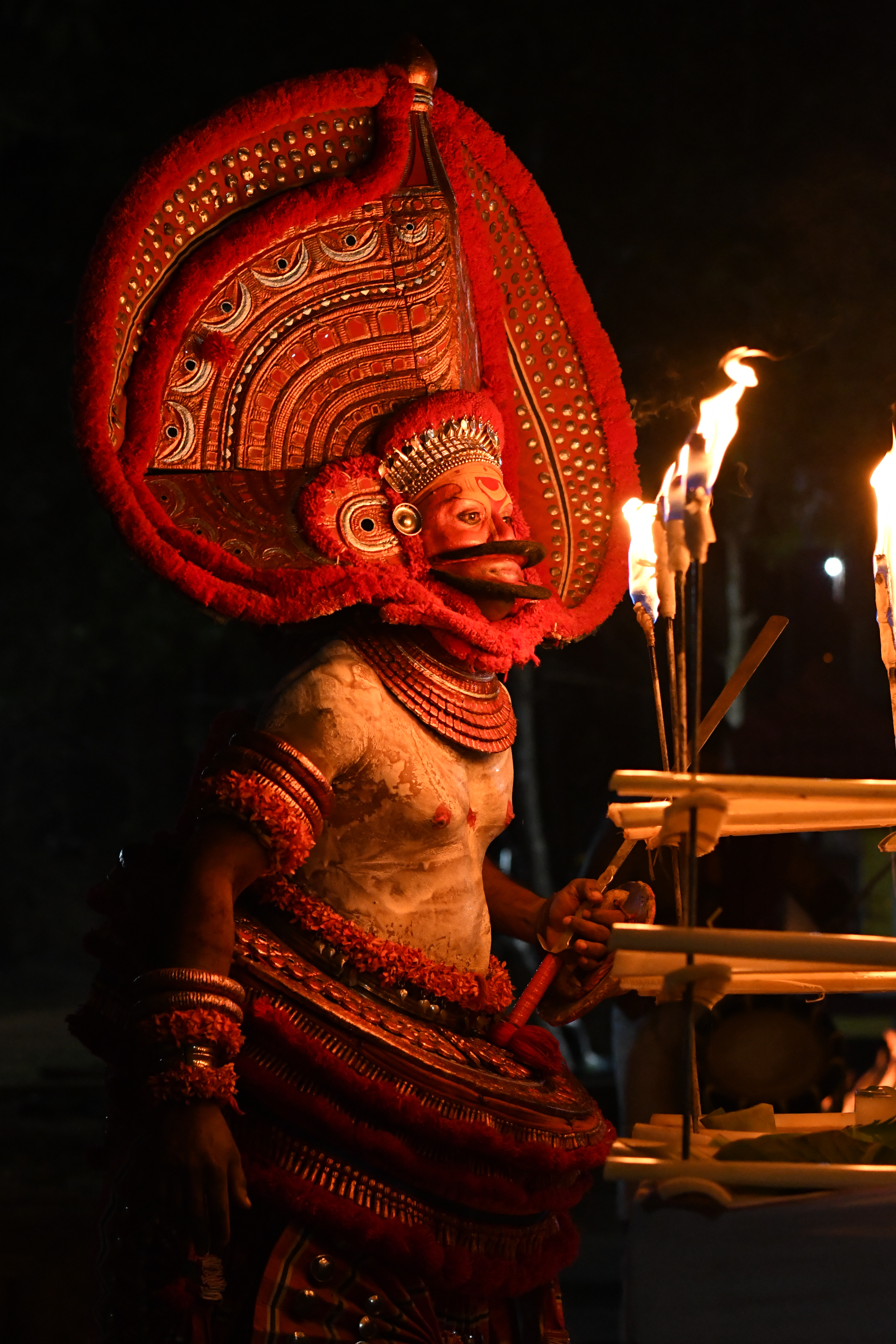 Theyyam is a ritual art of kerala